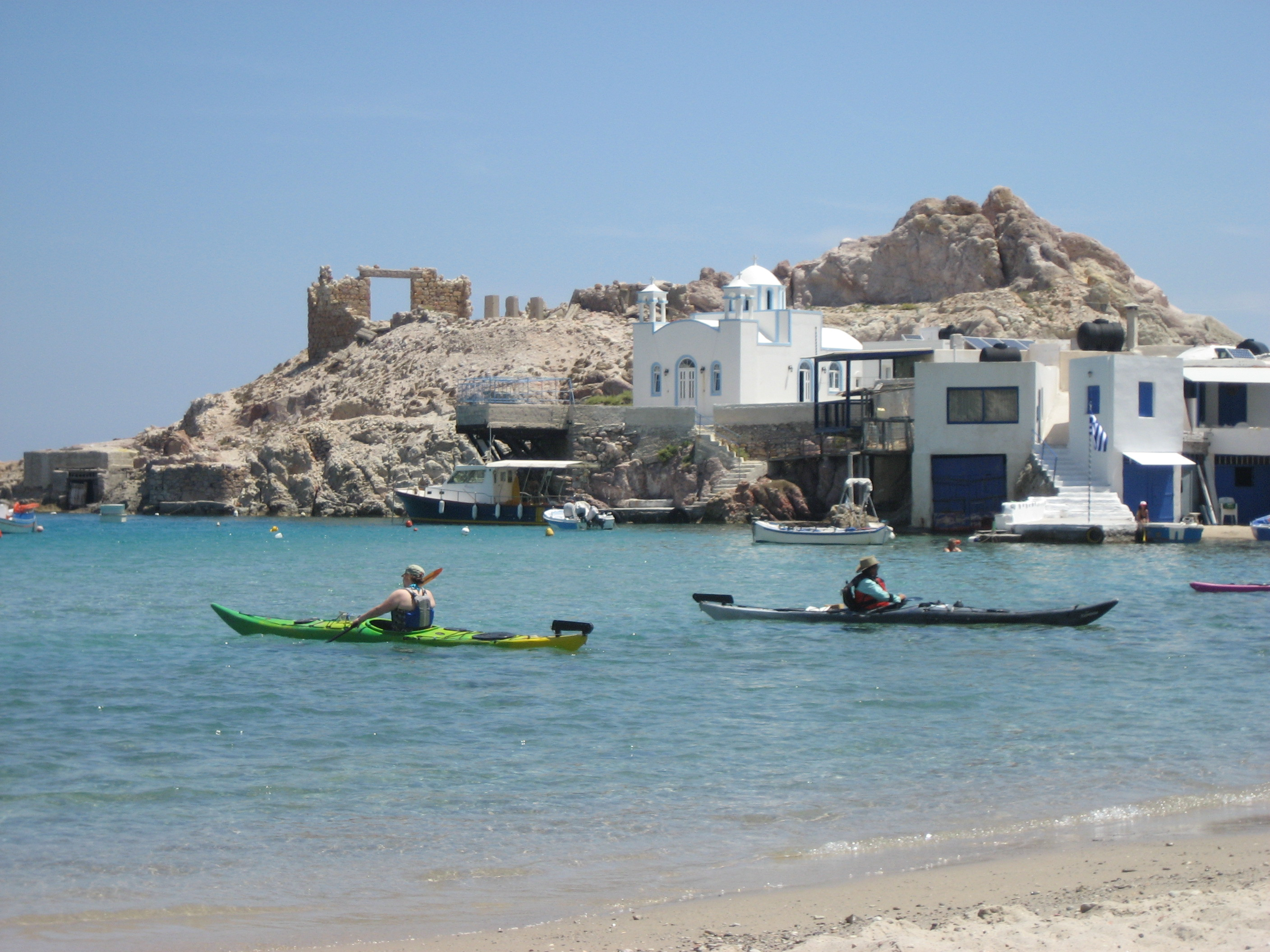 View of Fyropotamos, a beach on the greek island Milos